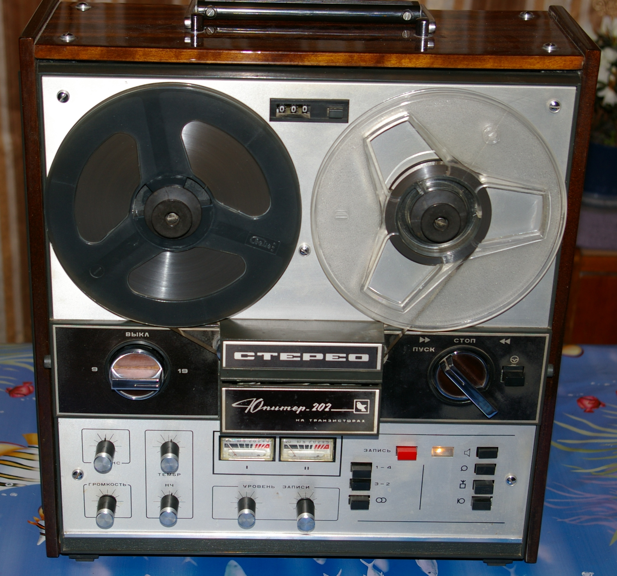 Jupiter 202 stereo tape recorder. Kommunist plant, Kiev, 1973 model